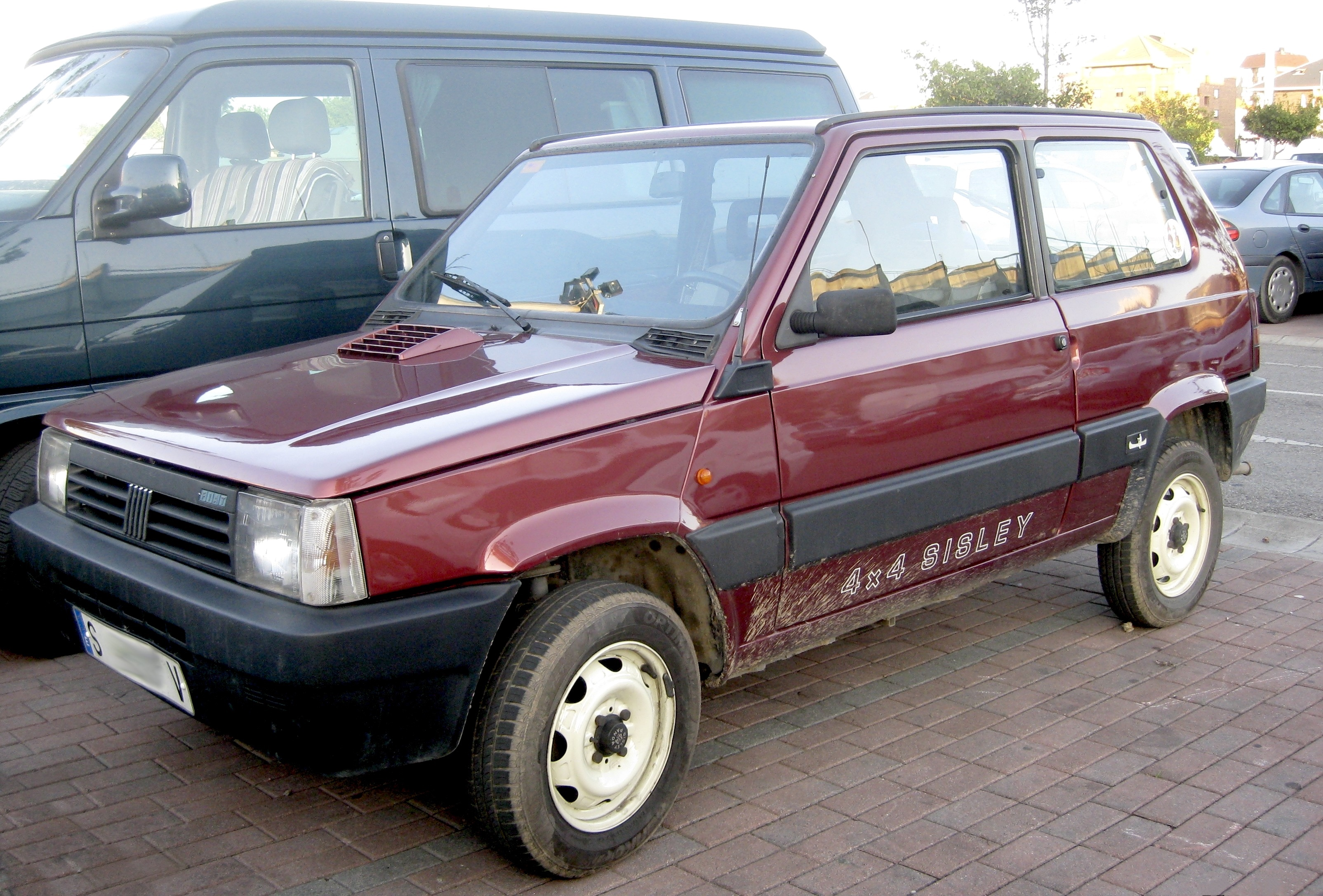 Superb edition of the Panda 4x4 that's very rare to spot, this version called SISLEY featured the following Metallic paint, inclinometer, sunroof, white painted wheels, roof rack, headlamp washers (though this one didn't have them) , bonnet scoop, "SISLEY" badging and trim. This one had a 1989 plate from Santander (Cantabria) which is a bit new for the car since it apparently ended production in 1986, I guess it could be a unit that was a few years in the dealership until it got registered two years later after the end of production of the model itself, I find it weird that a car gets re-registered only two years after it was sold unless it was imported. This one was spotted in Santander (Cantabria).